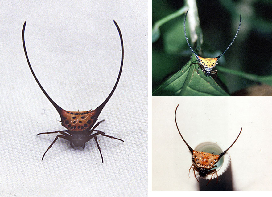 A small spider with large fake pinchers on the rear end. Known as the Long-horned Orb-weaver. Photos from central Sumatra. In context at